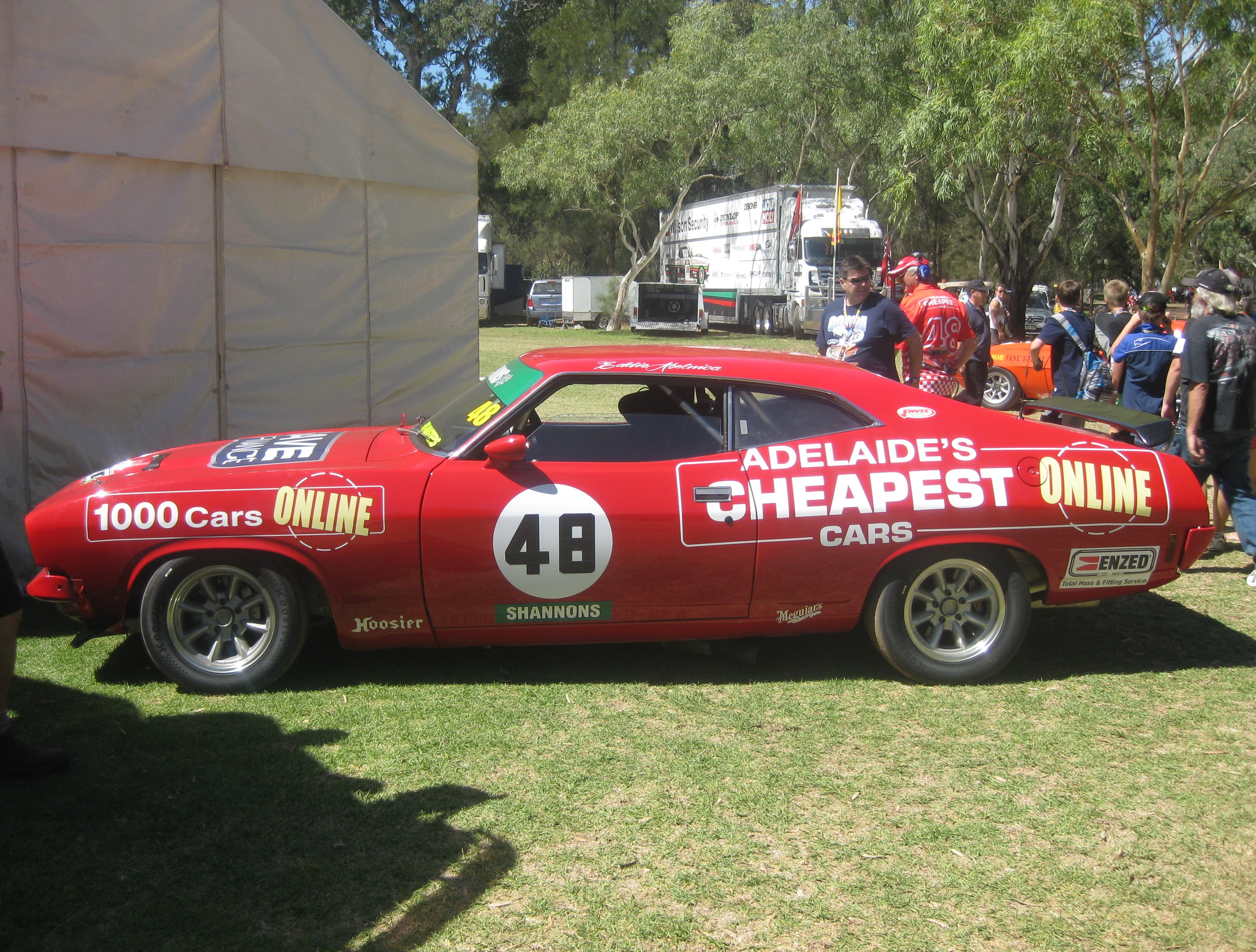 Ford XB Falcon GT Hardtop of Eddie Abelnica. Round 1, 2014 Touring Car Masters, Adelaide Parklands Circuit.